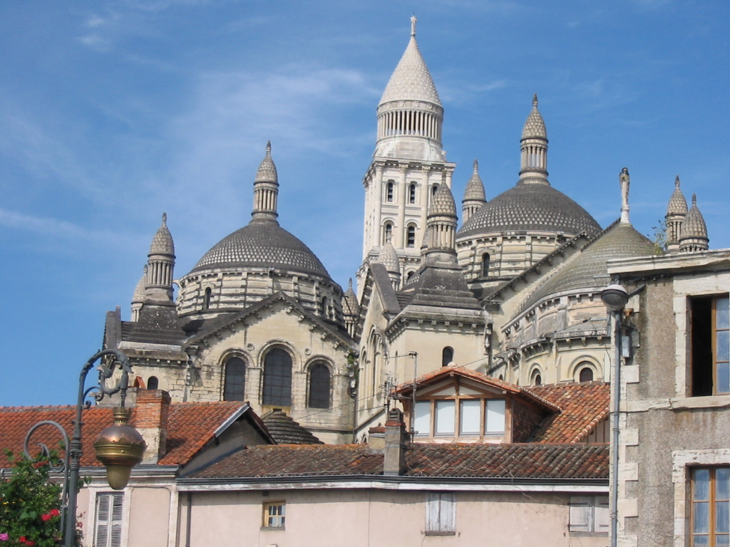 Saint-Front cathedral in perigueux (South Western France)